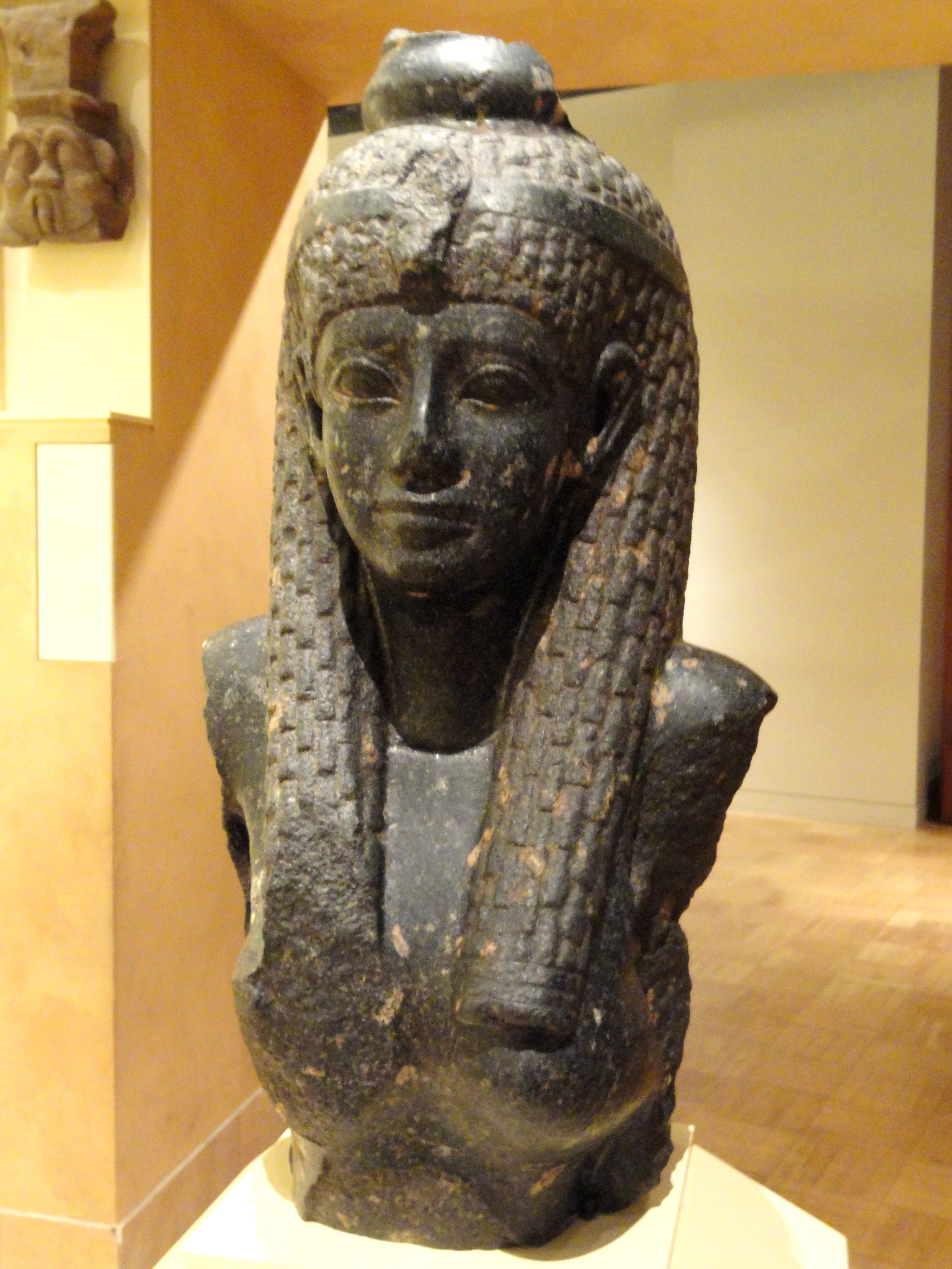 Exhibit in the Royal Ontario Museum, Toronto, Ontario, Canada. This exhibit is old enough so that it is in the public domain, and photography was permitted in the museum. I took this photograph and release it into the public domain.